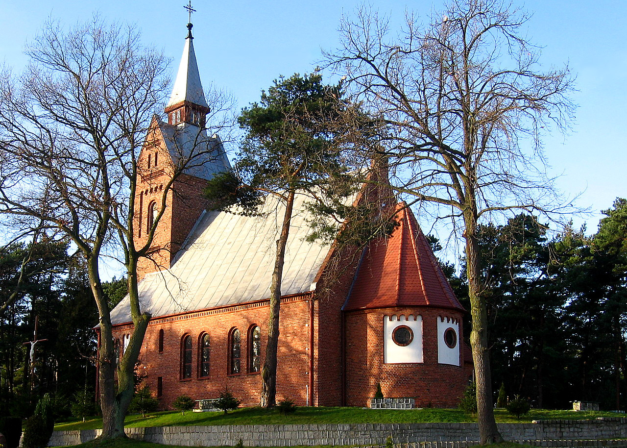 St.Peter and St.Paul Church in Mrzeżyno (Poland) at the Batlic Seaside.